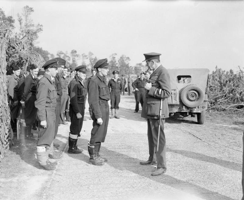 Royal Air Force- 2nd Tactical Air Force, 1943-1945. Marshal of the Royal Air Force Lord Trenchard at B11/Longues while paying a visit to squadrons fighting in Normandy. Here he can be seen talking to Squadron Leader D H Smith , Commanding Officer of No. 453 Squadron RAAF, and his pilots, who had just returned from an armed reconnaissance during which 22 enemy vehicles were destroyed.